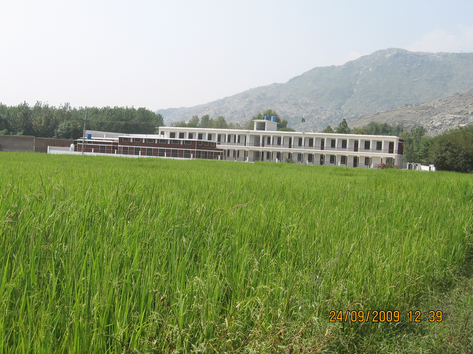 A view of Government High School for Boys, Badwan